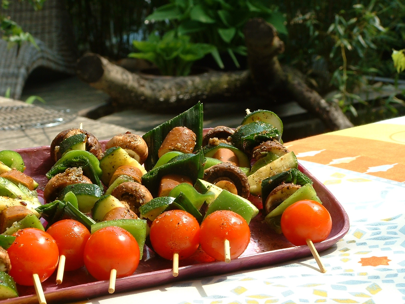 Shashlik of the vegan kind